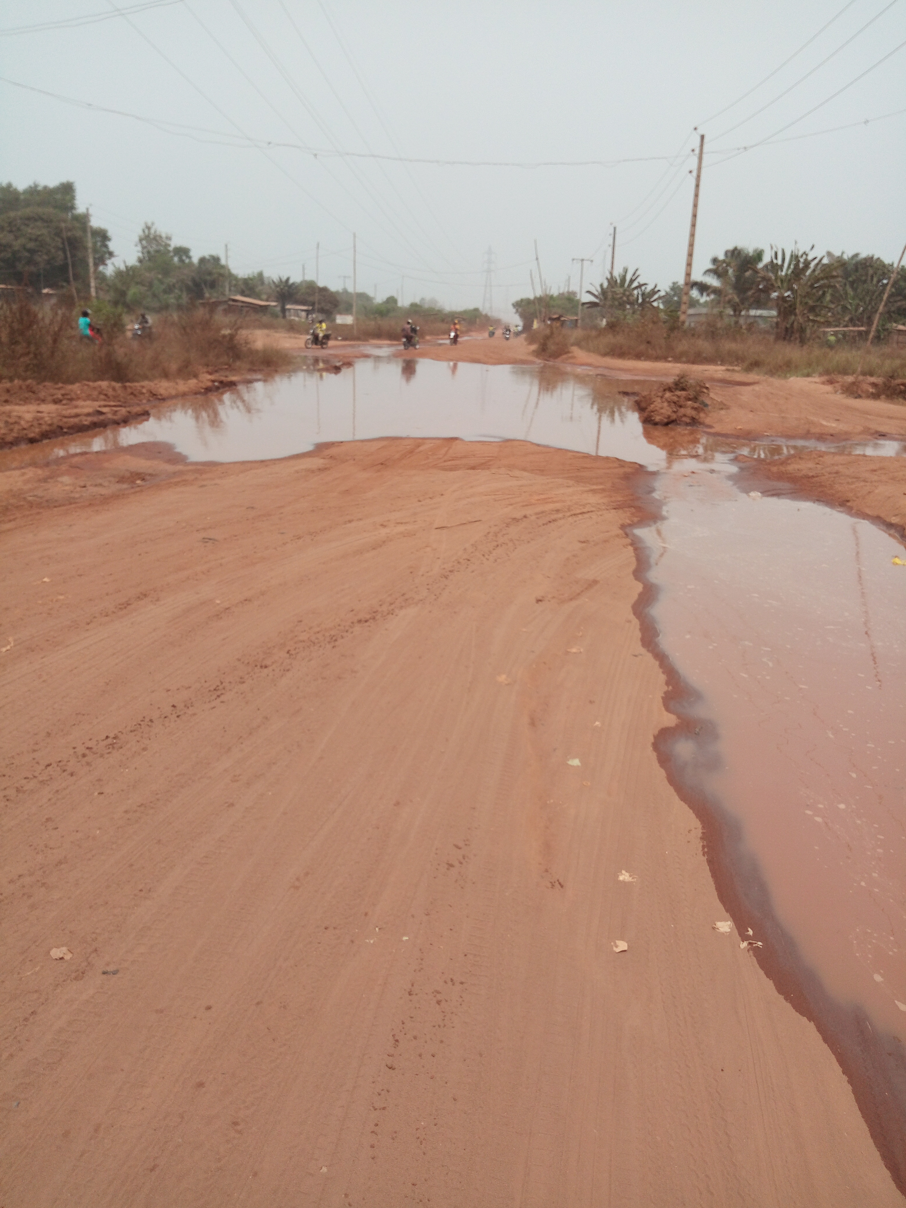 Français cadien: Route du tronçon Tokan-Houeto (Abomey-Calavi) This is an image with the theme "Africa on the Move or Transport" from: Benin